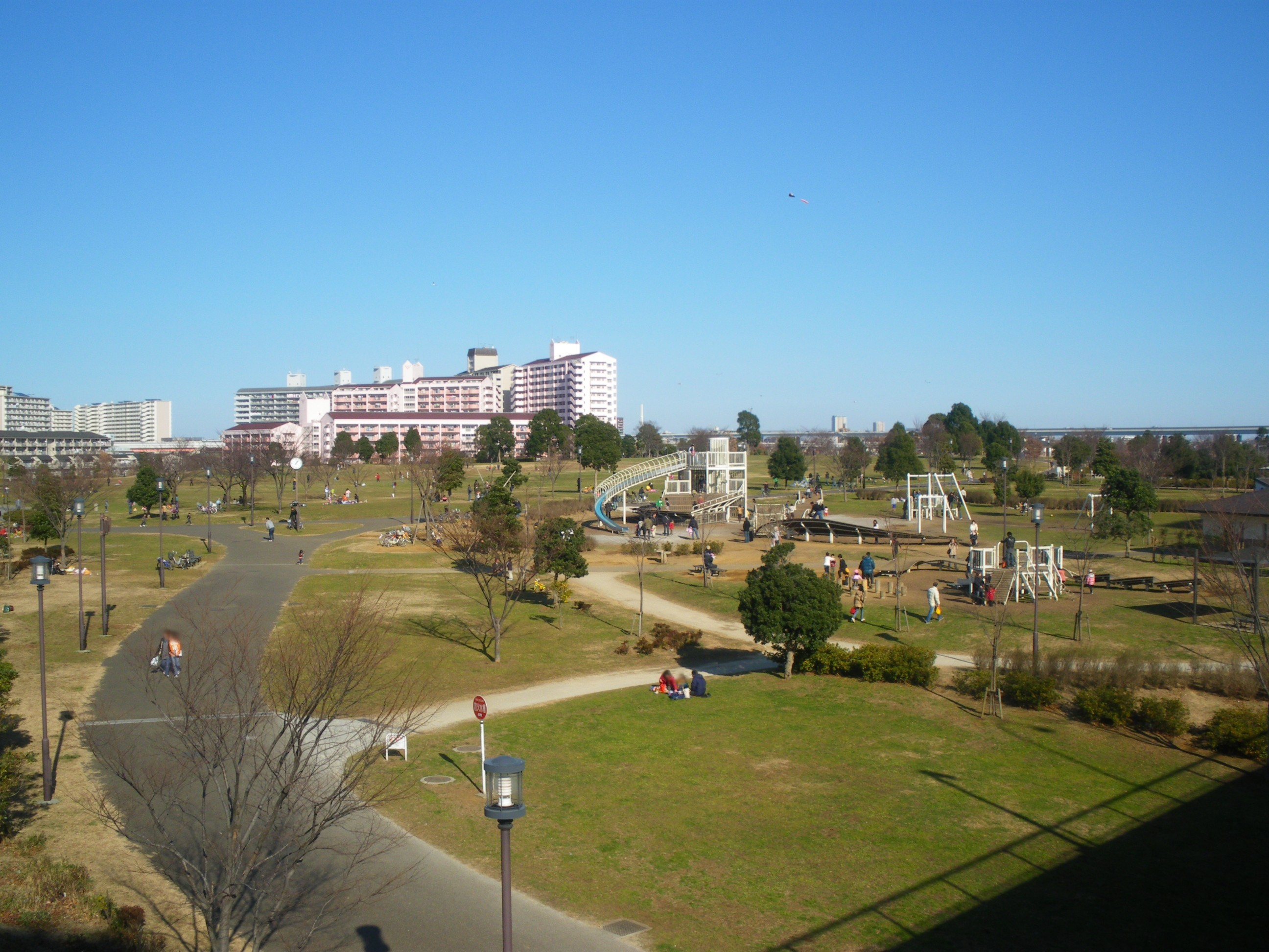 A photo of Ojima Komatsugawa Park, a large park in Koto-ku and Edogawa-ku,Tokyo,Japan.